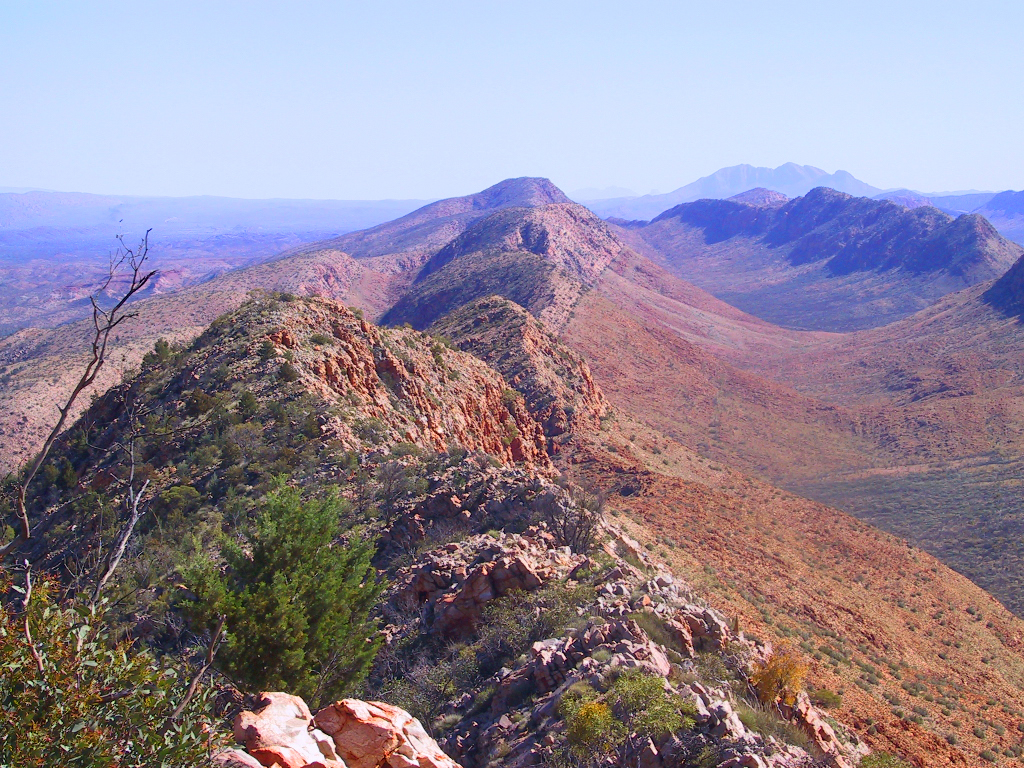 View along the West MacDonnell Ranges from Counts Point on the Larapinta Trail. Mount Sonder, one of the higherst mountains in the Northern Territory, is in the background.